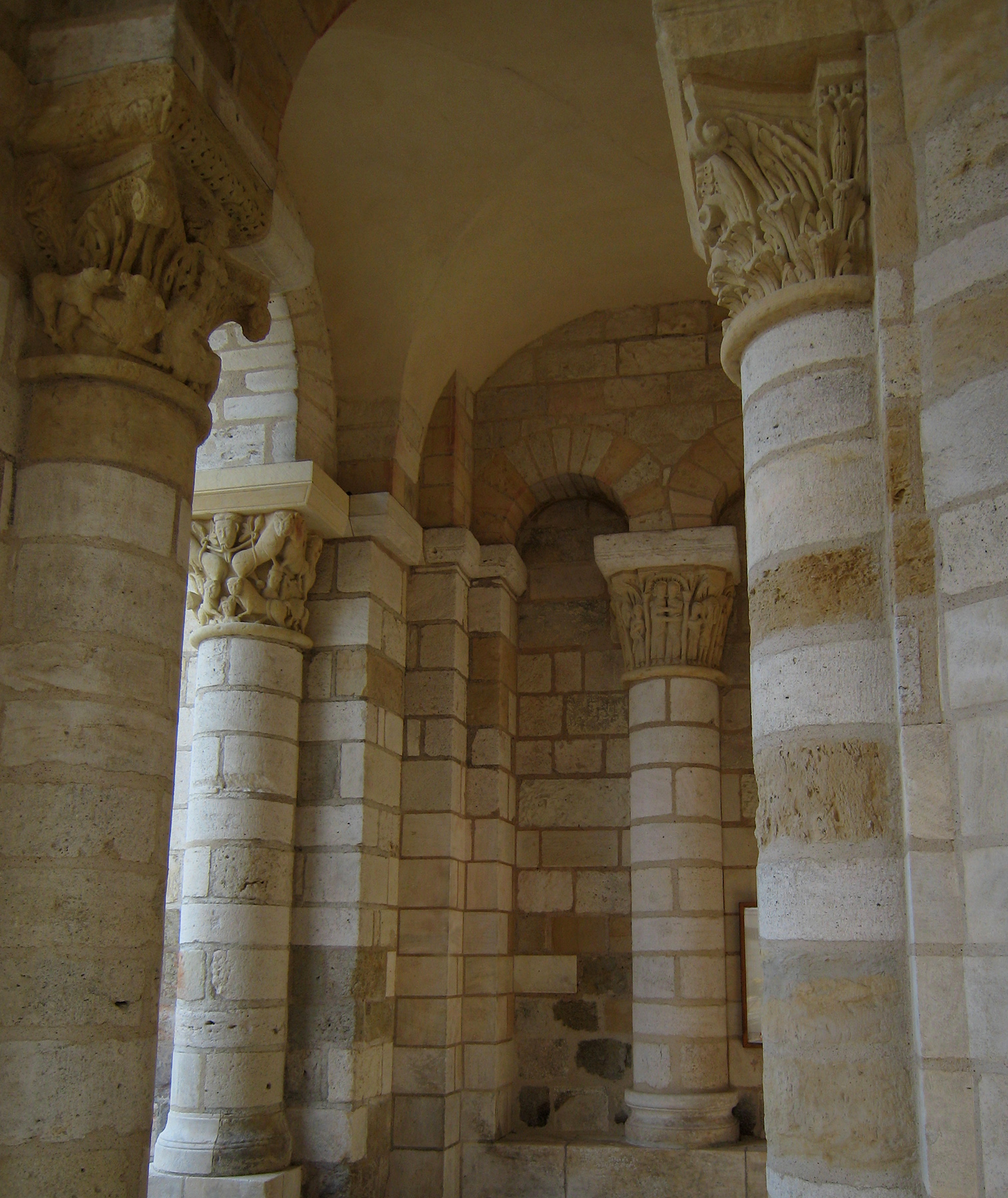 Abbaye de Saint Benoît, located in the town of Benoit-sur-Loire in the département of Loiret/France